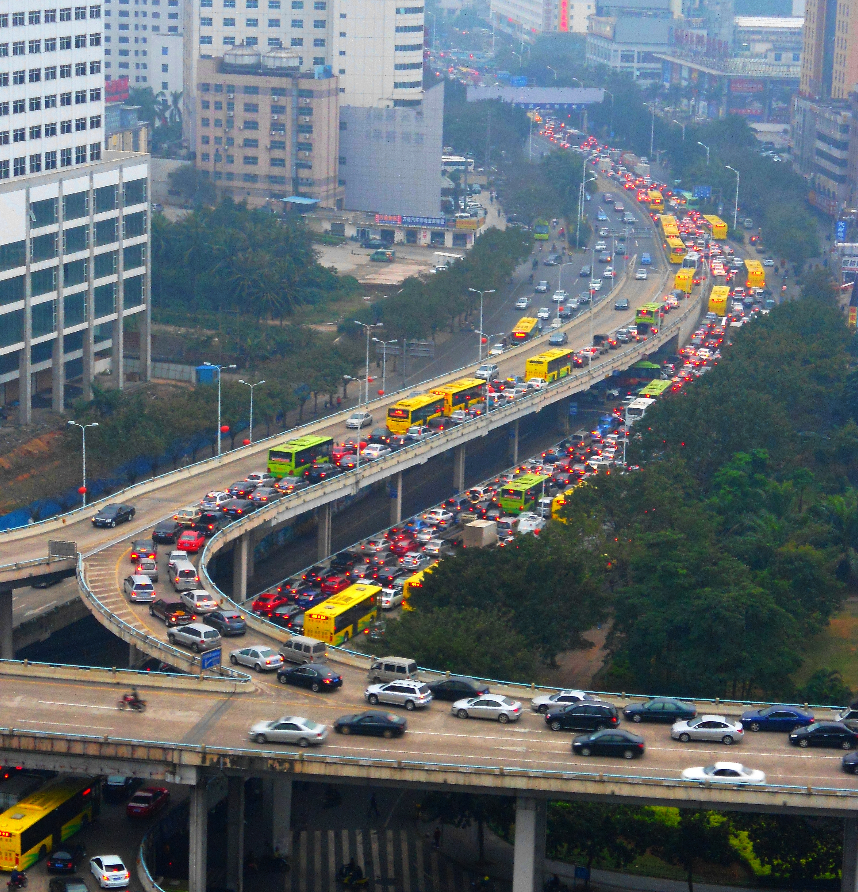 Traffic jam at 17:30 downtown Haikou City, Hainan Province, China.